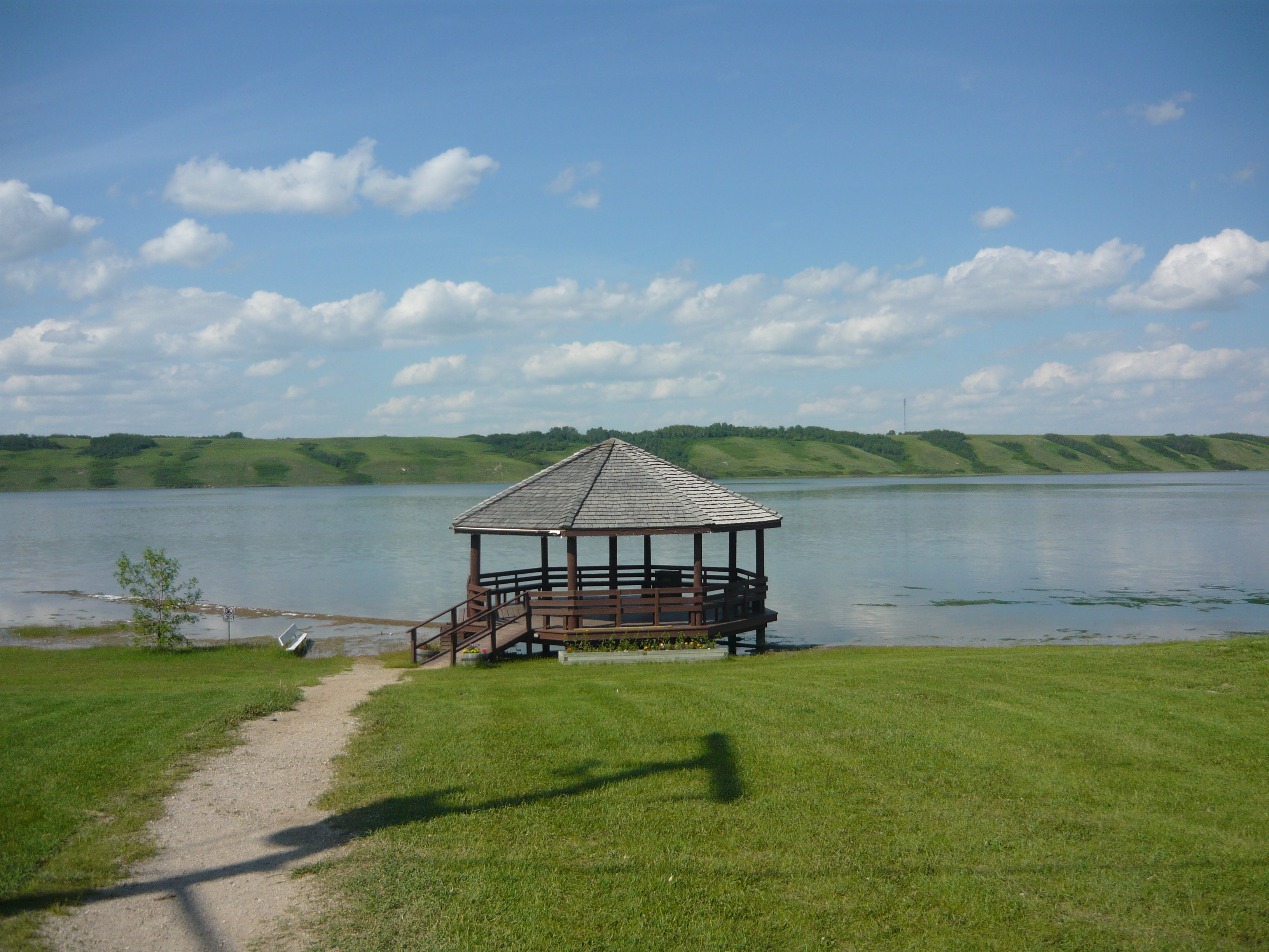 Gazebo at Manitou Beach, Saskatchewan, Canada. Photo taken approximately from the intersection of MacLachlan Avenue and Watrous Street, looking northward toward the lake.